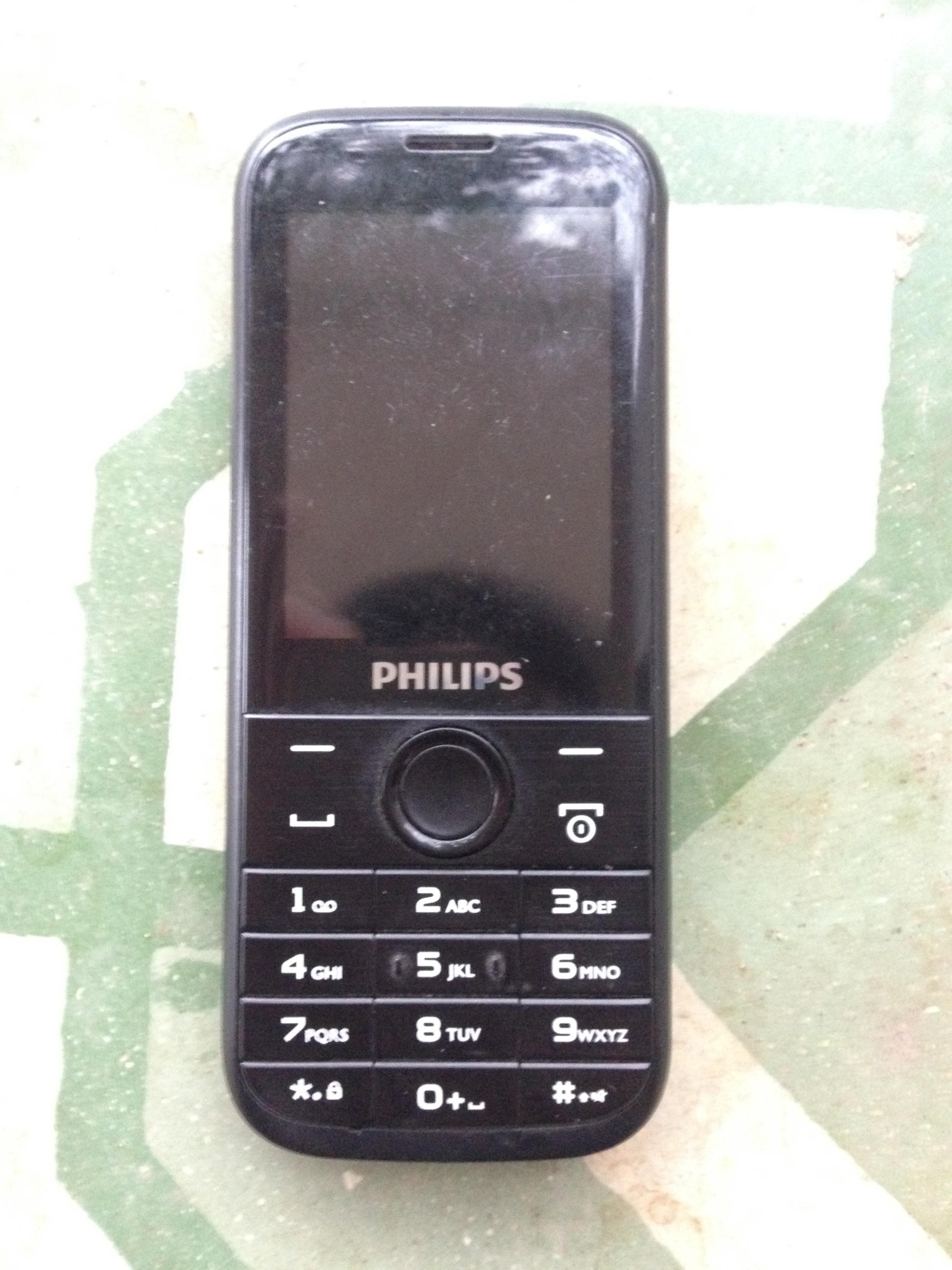 of cell phone model Philips E160